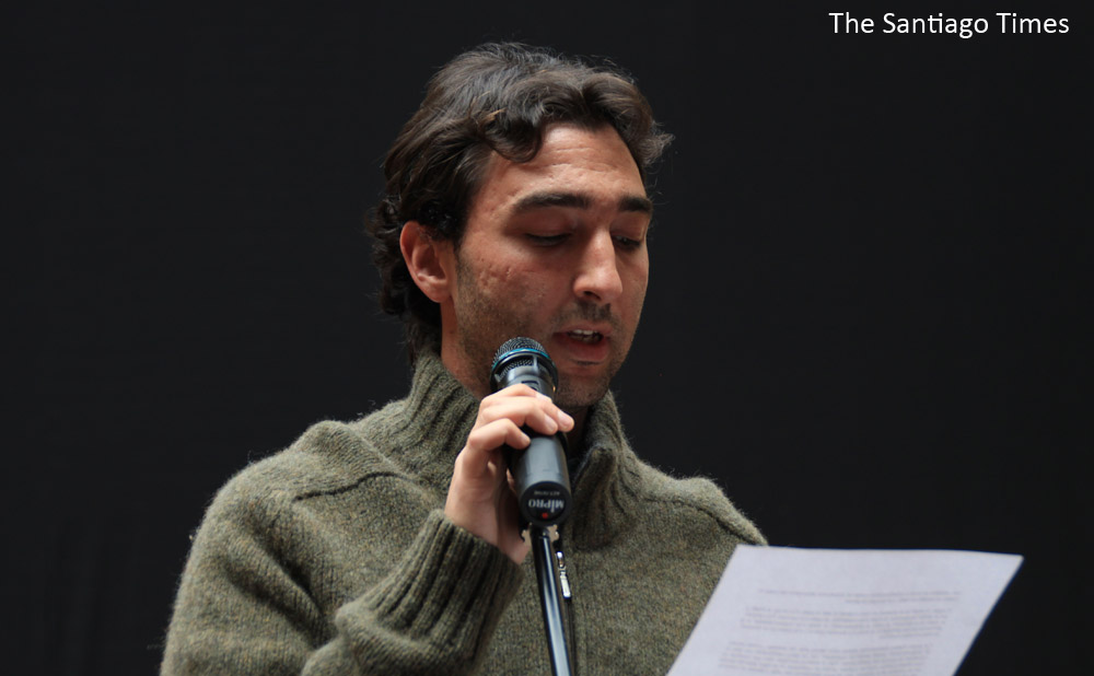 Andrés Fielbaum, president of the student organization (FECh), speaking at the ceremony. Photo by Clémence Douchez-Lortet / The Santiago Times